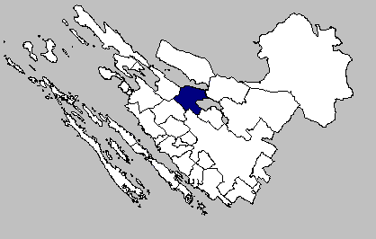 Self-made map of the Posedarje municipality within the Zadar County.